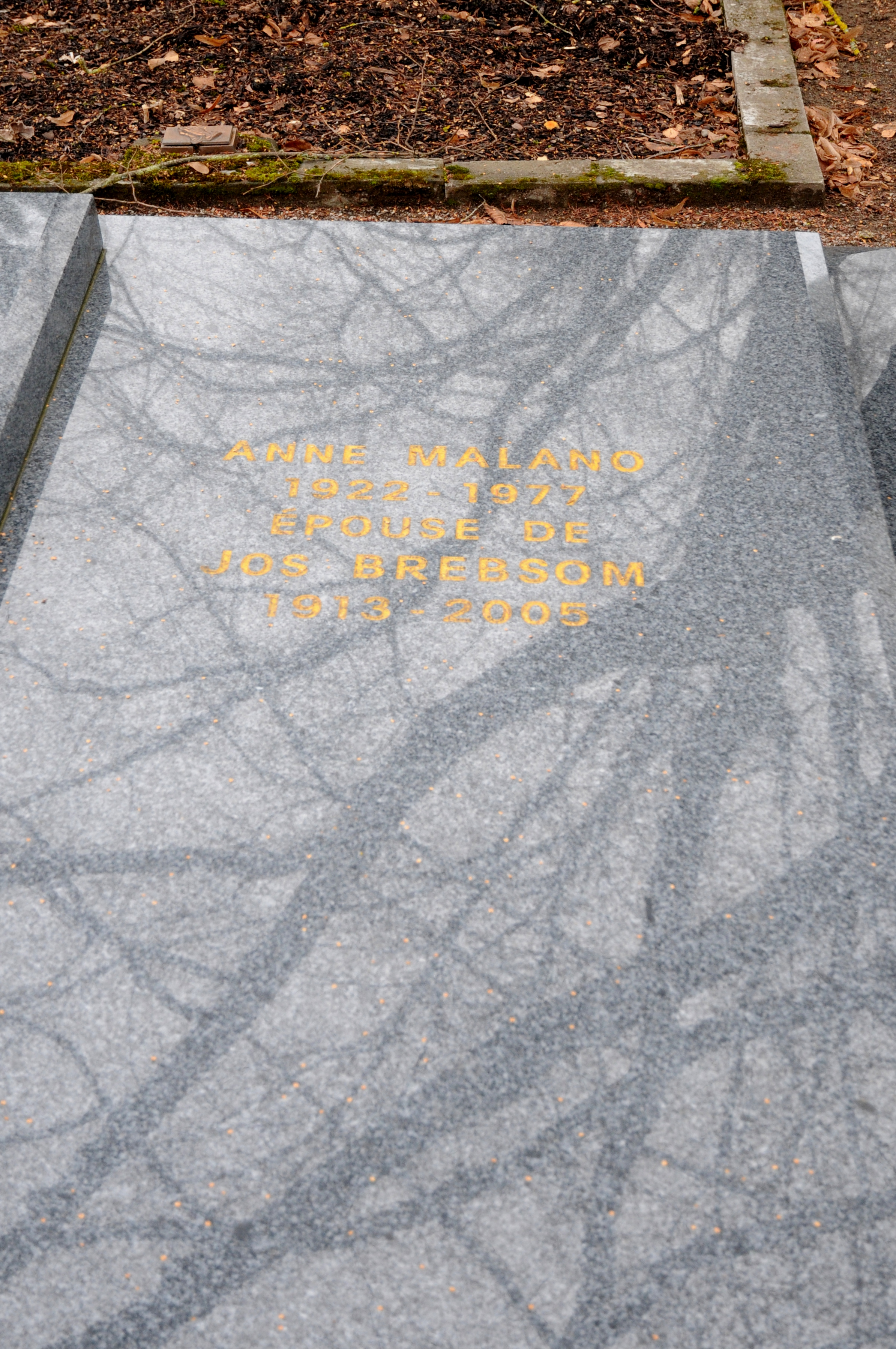 Gravestone, Saint Joseph Cemetery, Esch-sur-Alzette.